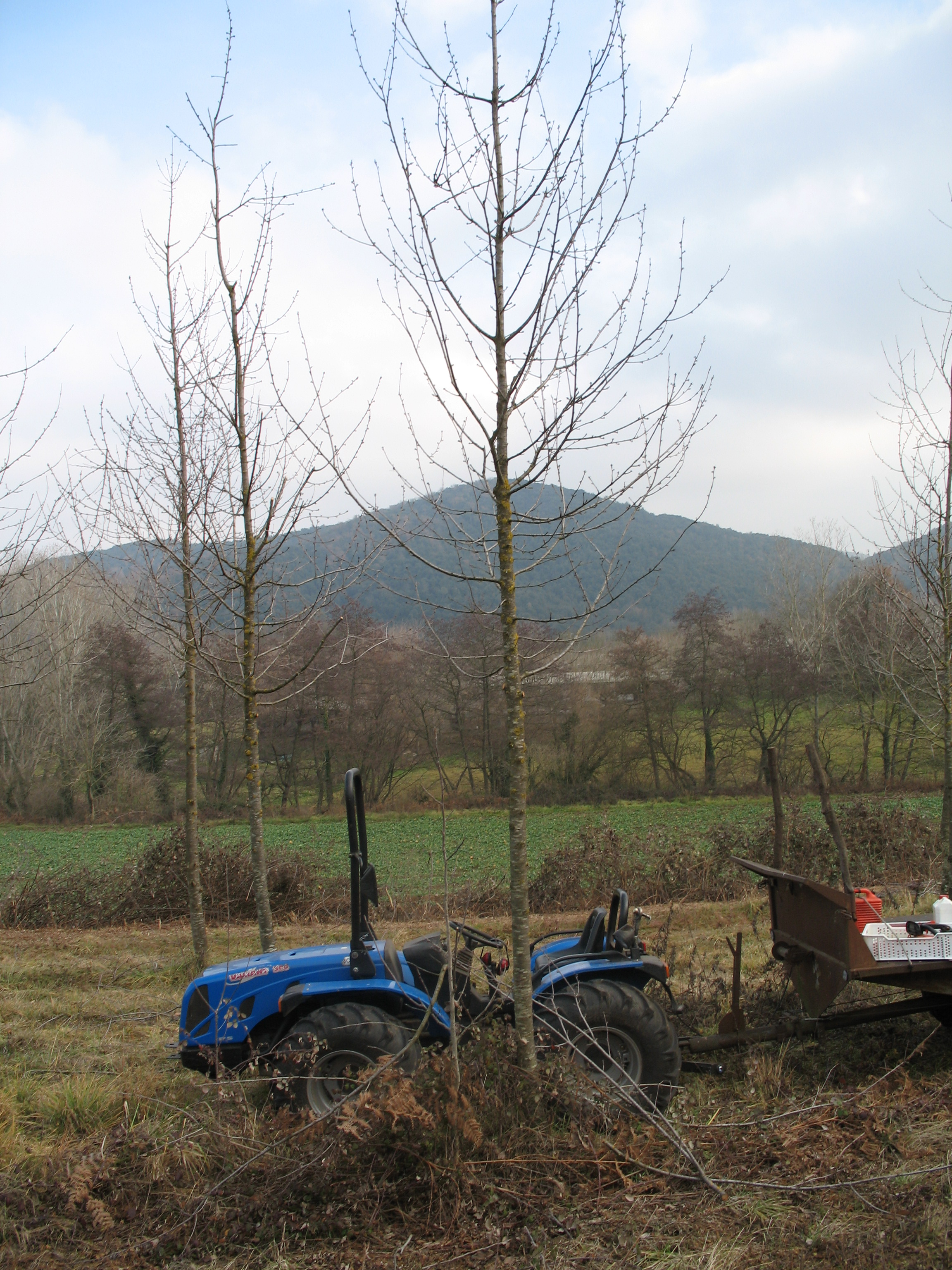 Conformation pruning in Prunus avium (Wild Cherry), in La Garrotxa, Catalonia, Spain.